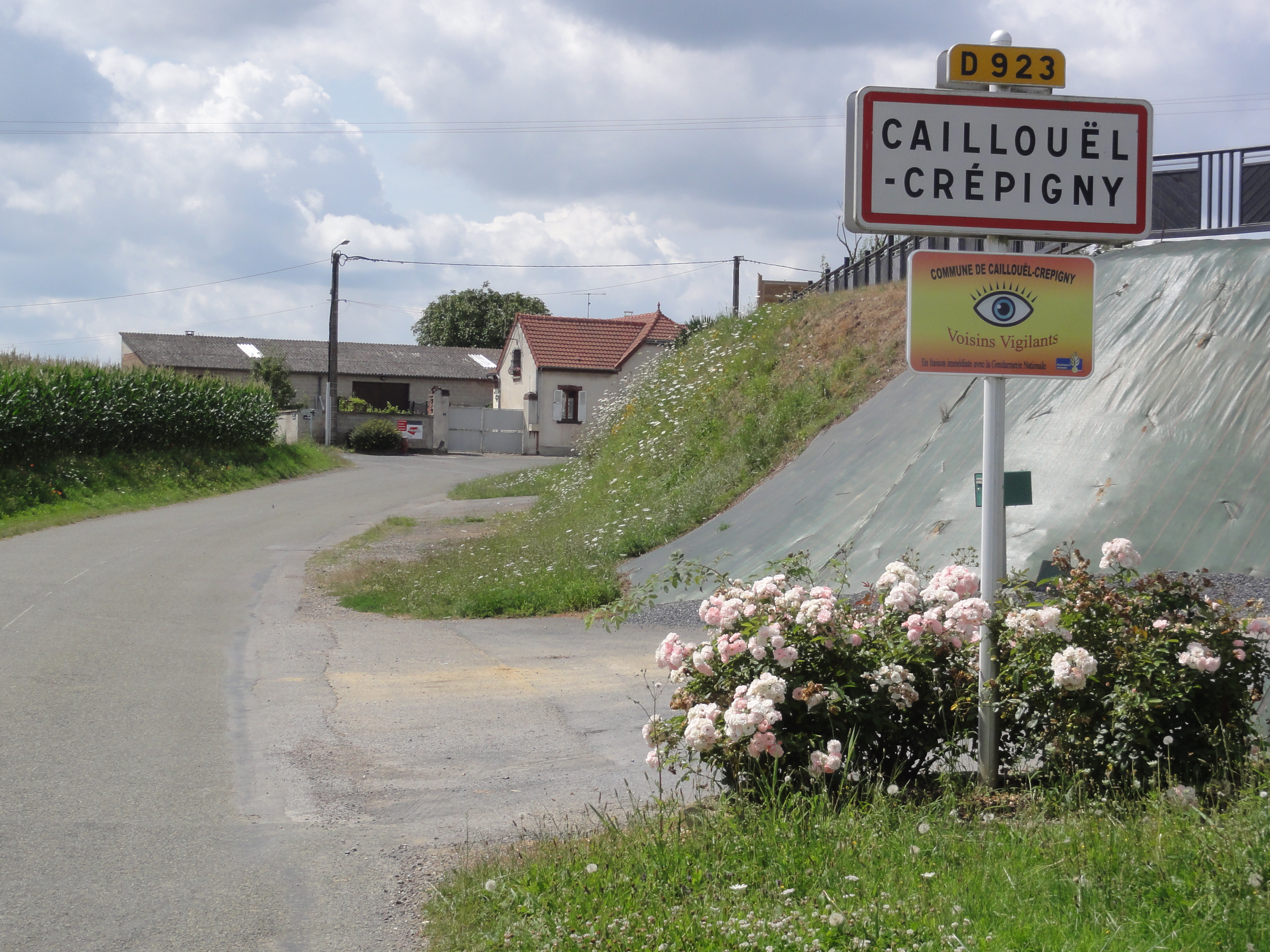 Caillouël-Crépigny (Aisne) city limit sign